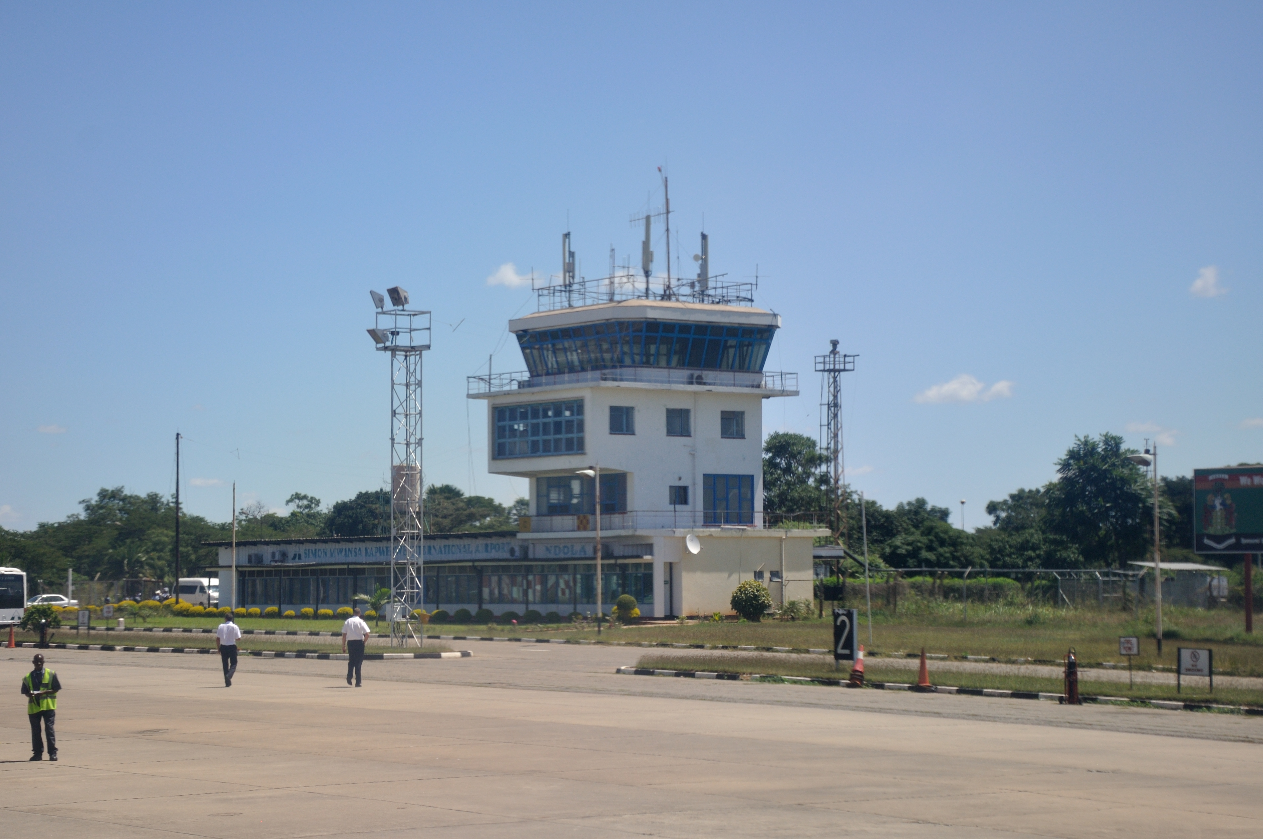 Zambia, spotting at Ndola International Airport